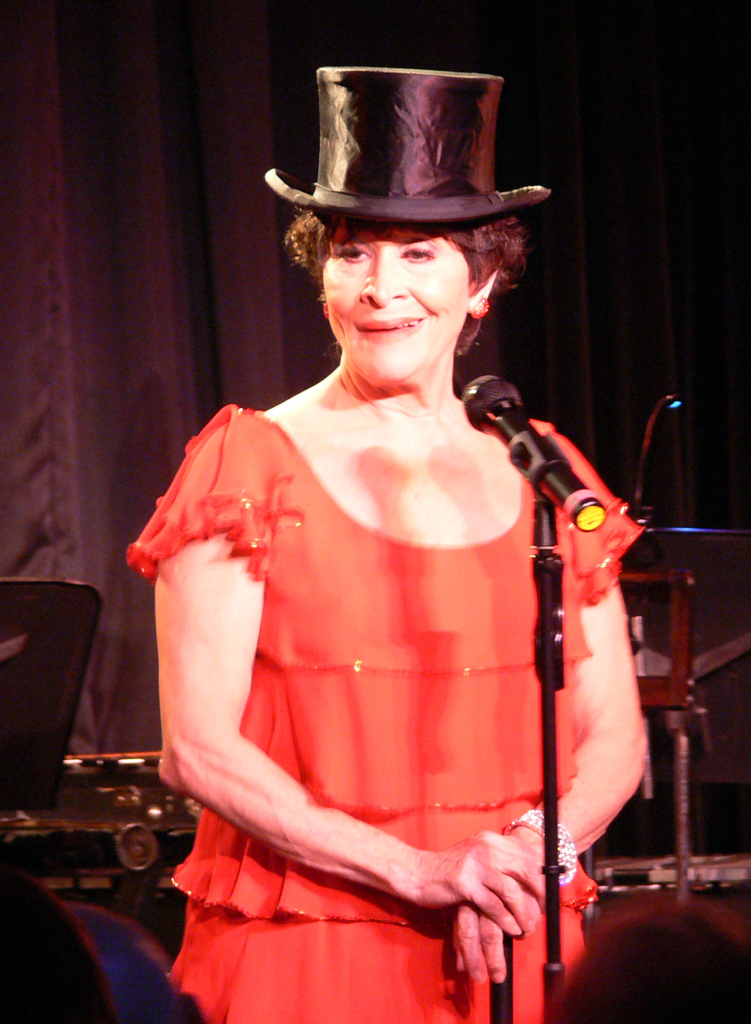 Chita Rivera in her solo cabaret show, 2008